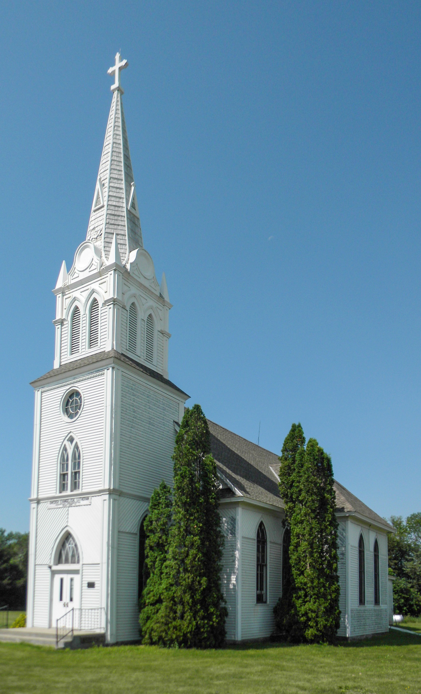 Augustana Swedish Lutheran Church Site is well hidden among winding gravel roads.